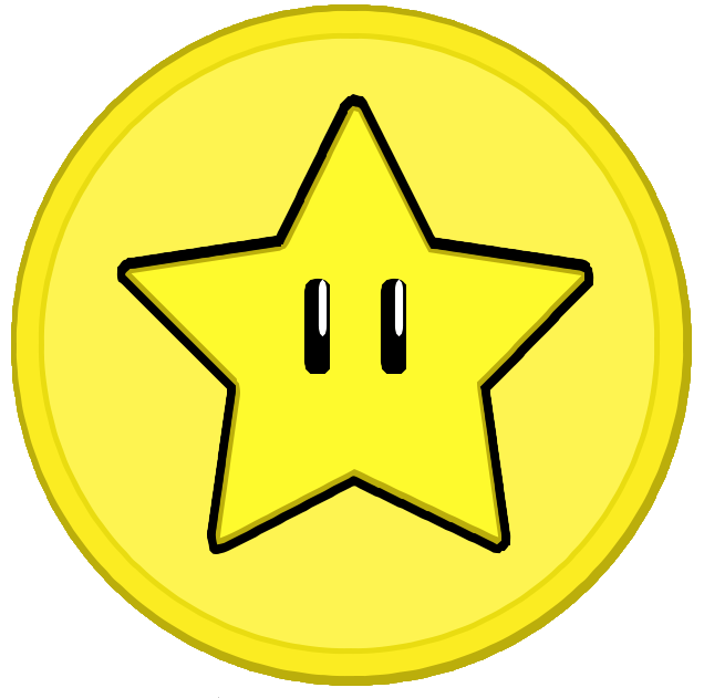 Five-pointed star with eyes drawn into a circle to resemble a coin.